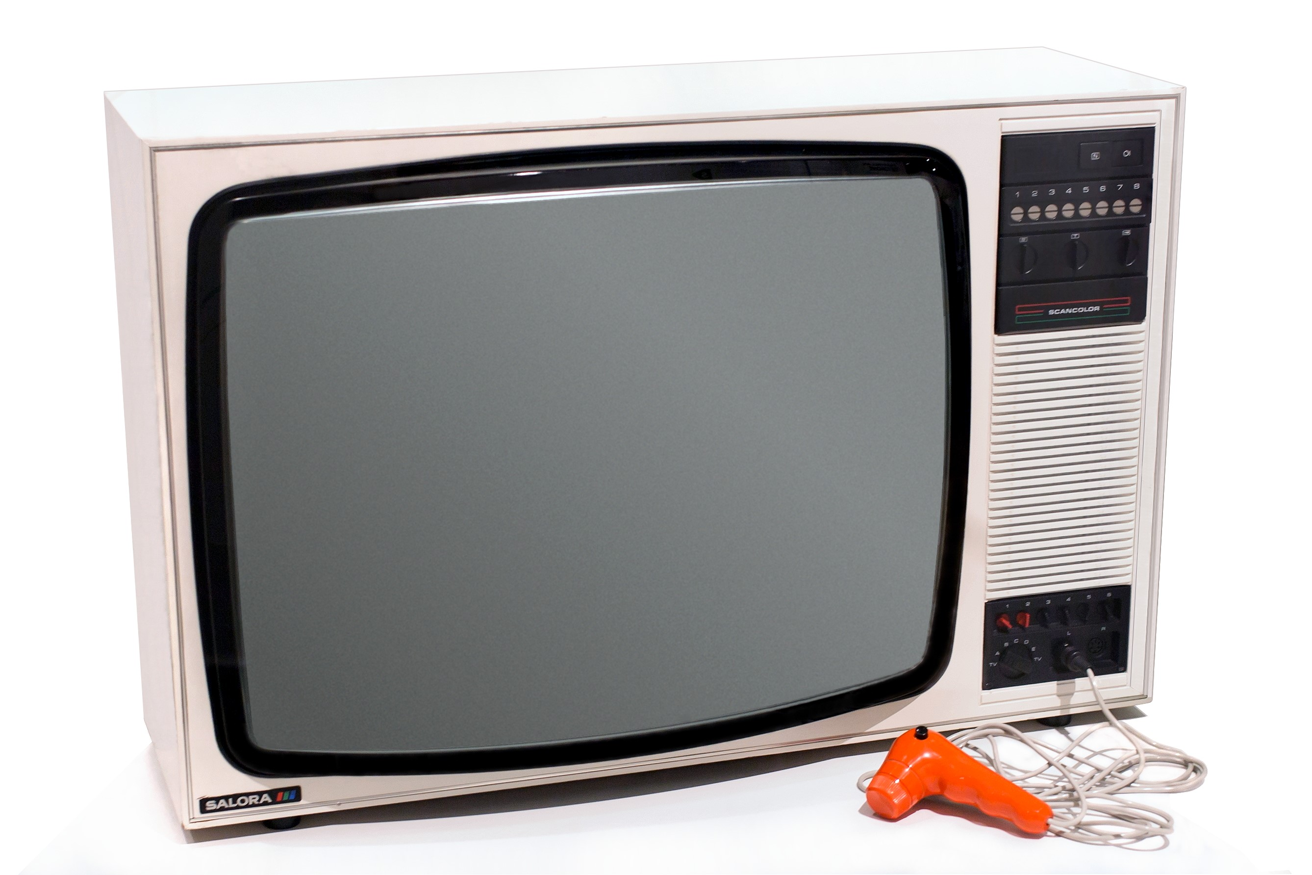 Salora Playmaster(1977) in The Finnish Museum of Games. Is a TV with integrated a first generation Pong console